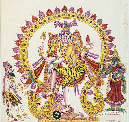 Nataraja with Bhringi and Parvati